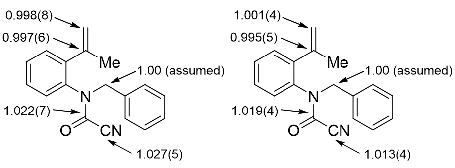 13C KIEs for enantioselective intramolecular alkene cyanoamidation reaction scheme